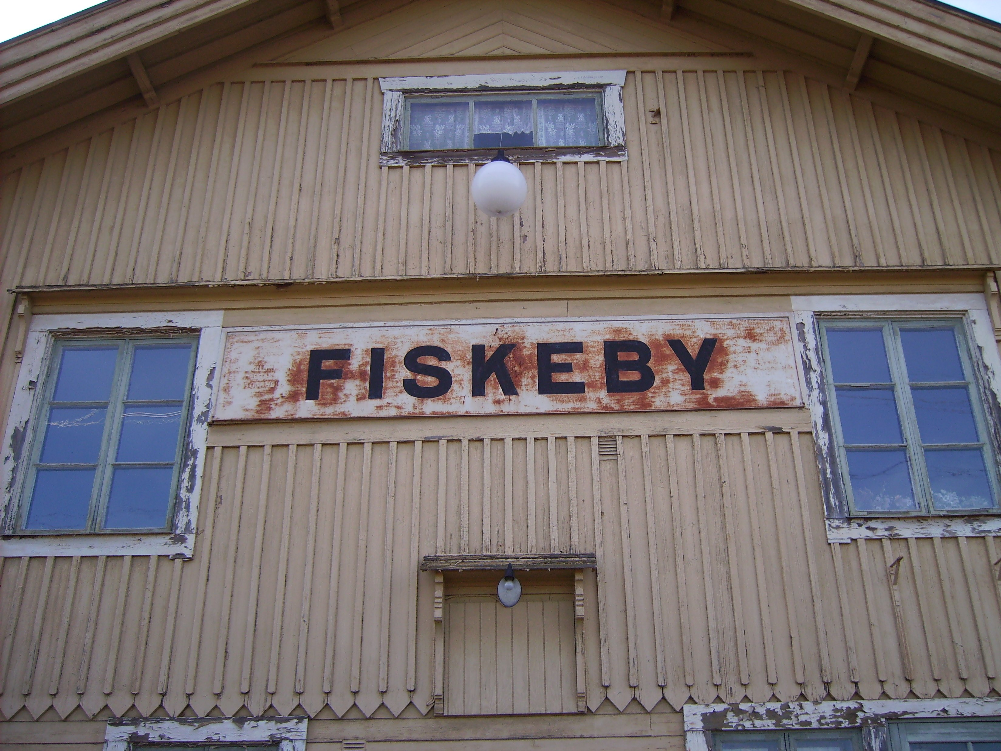 Photo by Harri Blomberg.